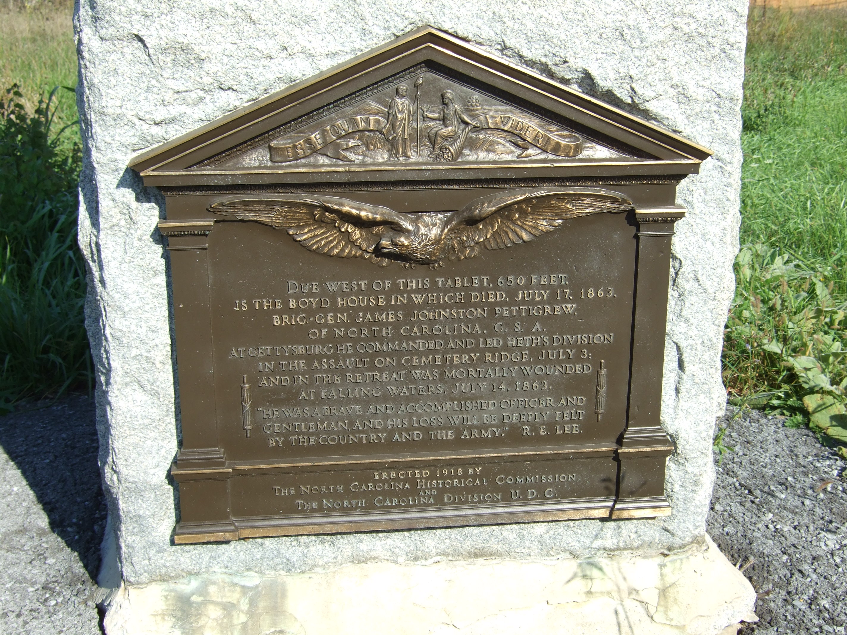 Monument in Bunker Hill West Virginia, site of J. Johnston Pettigrew's demise.